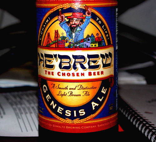 a tasty brew for a tasty... uhm... people.